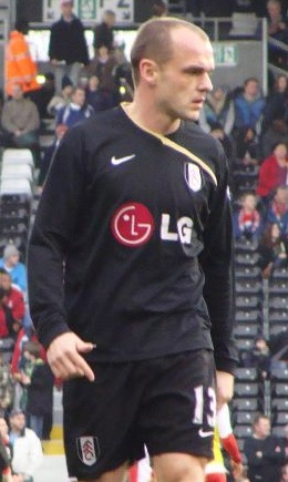 Danny Murphy and Paul Konchesky of Fulham FC.